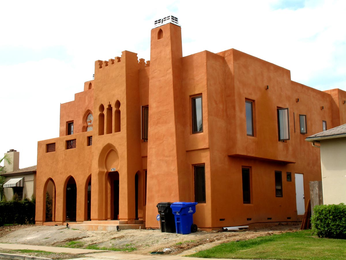 Sand castle in Talmadge, San Diego